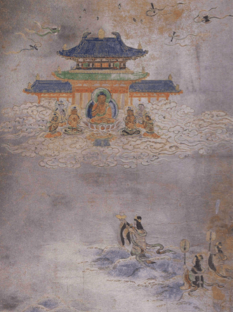 Frontispiece of the Devadatta chapter scroll (ch 12 of the Lotus Sutra) in the "Heike Nokyo", a 12th century set of sutra scrolls. The dragon kings daughter (Longnü) offers her priceless jewel to the Buddha. See Abe, Ryuchi (2015). "Revisiting the Dragon Princess: Her Role in Medieval Engi Stories and Their Implications in Reading the Lotus Sutra". Japanese Journal of Religious Studies. 42 (1): 27–70.